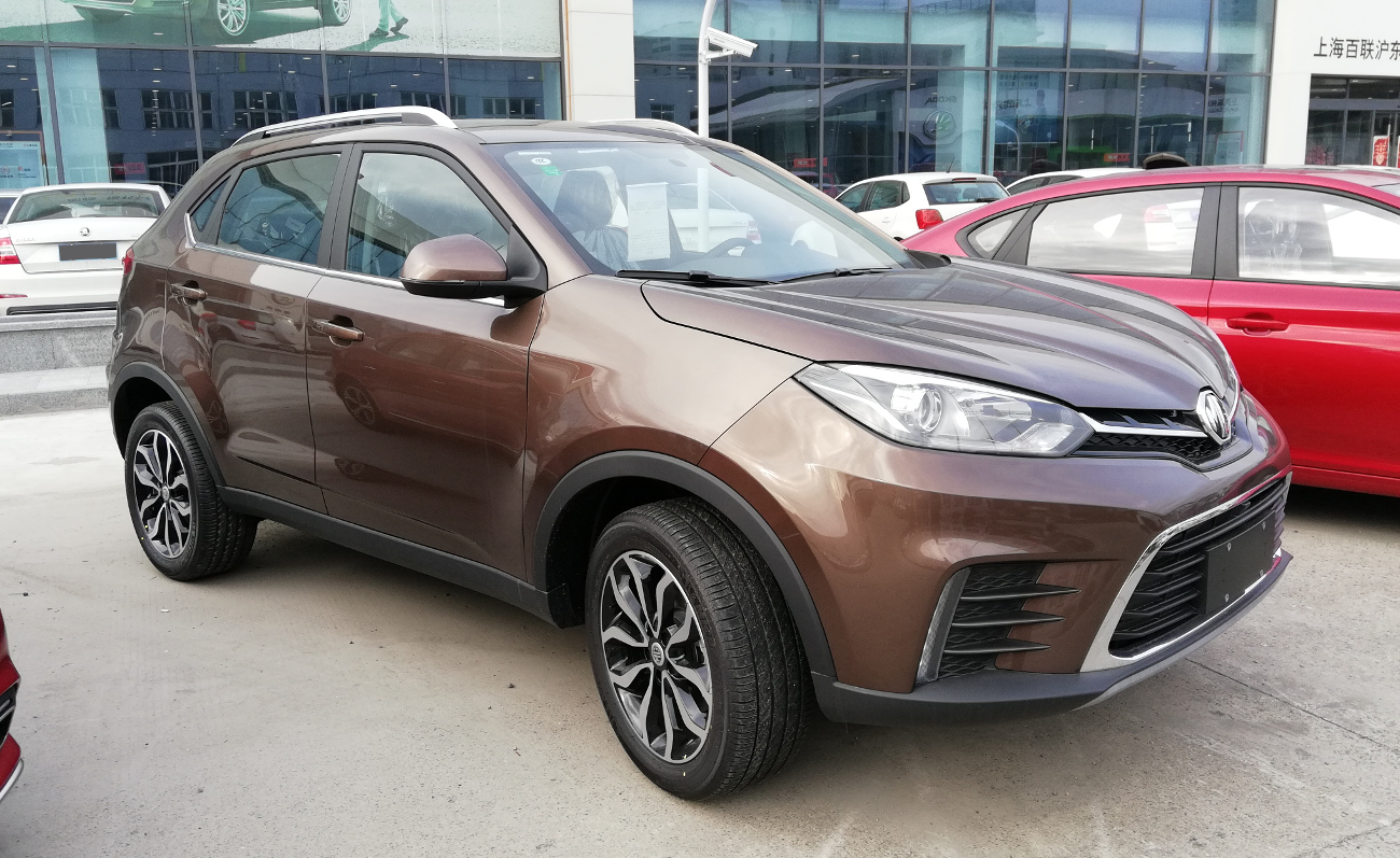 MG GS facelift photographed in Shanghai, China.